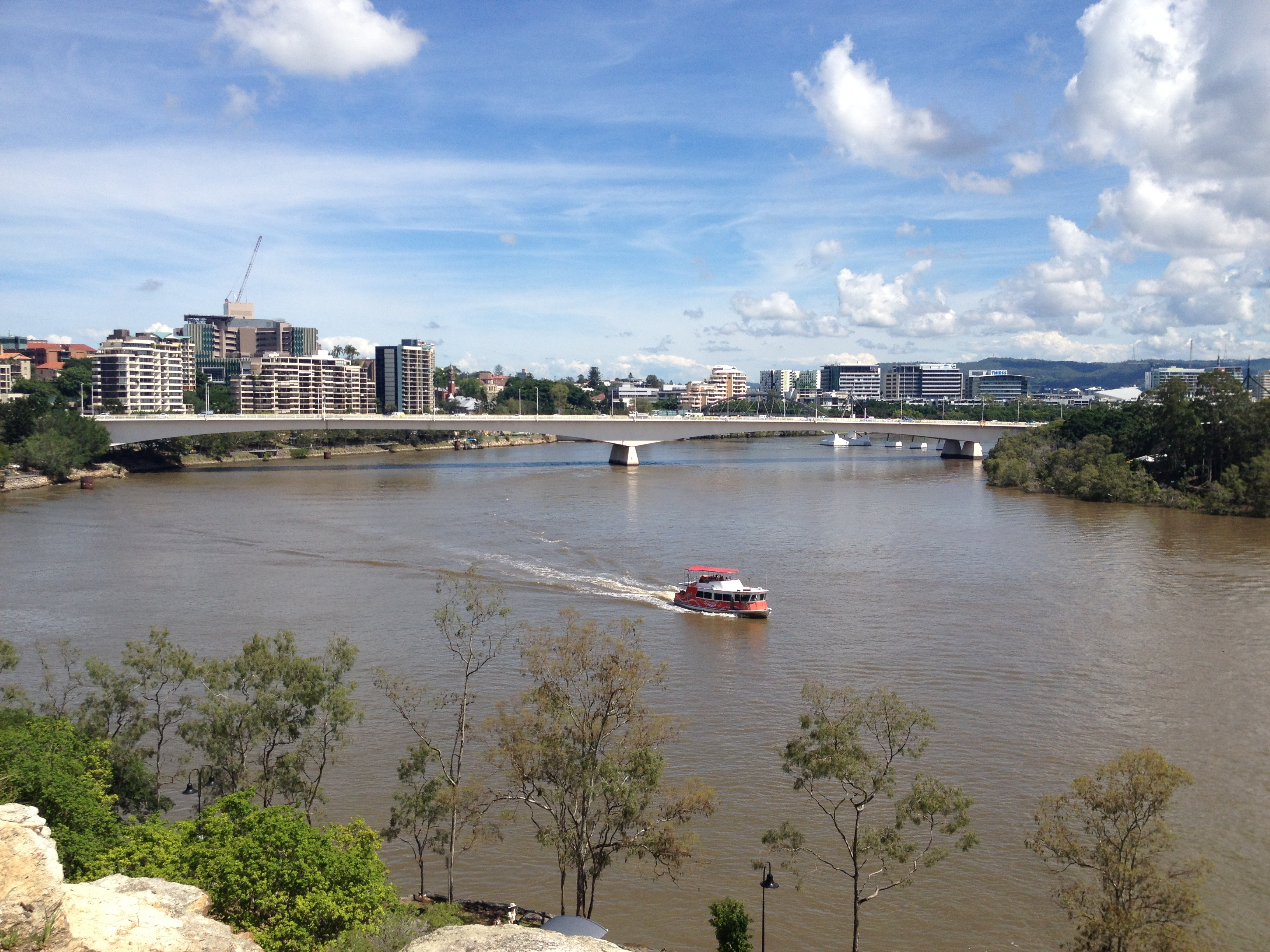 Captain Cook Bridge, Brisbane (photo taken from Kangaroo Point Cliffs).